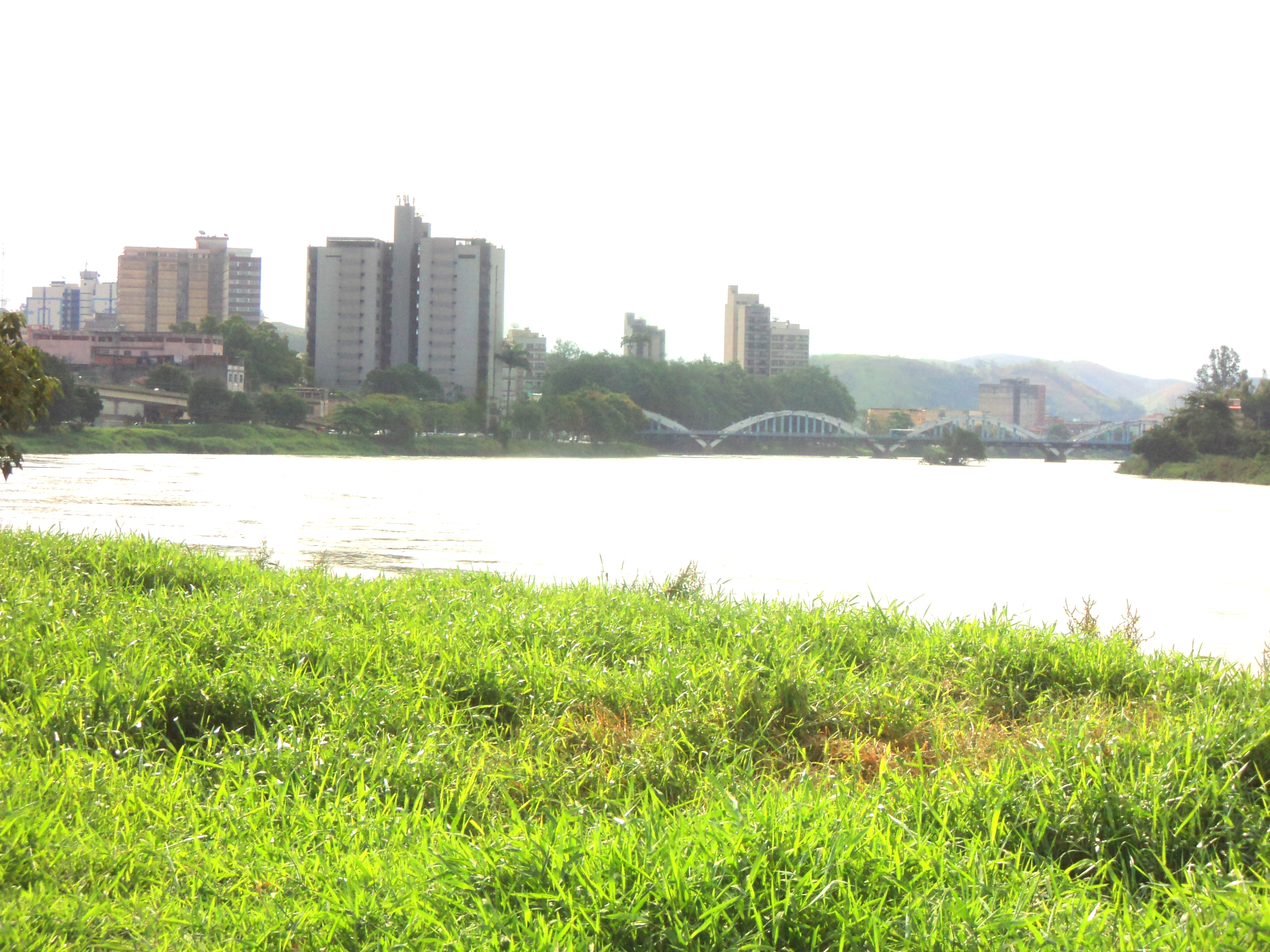 View of the paraíba do sul river, in Barra Mansa, Rio de Janeiro, Brazil.